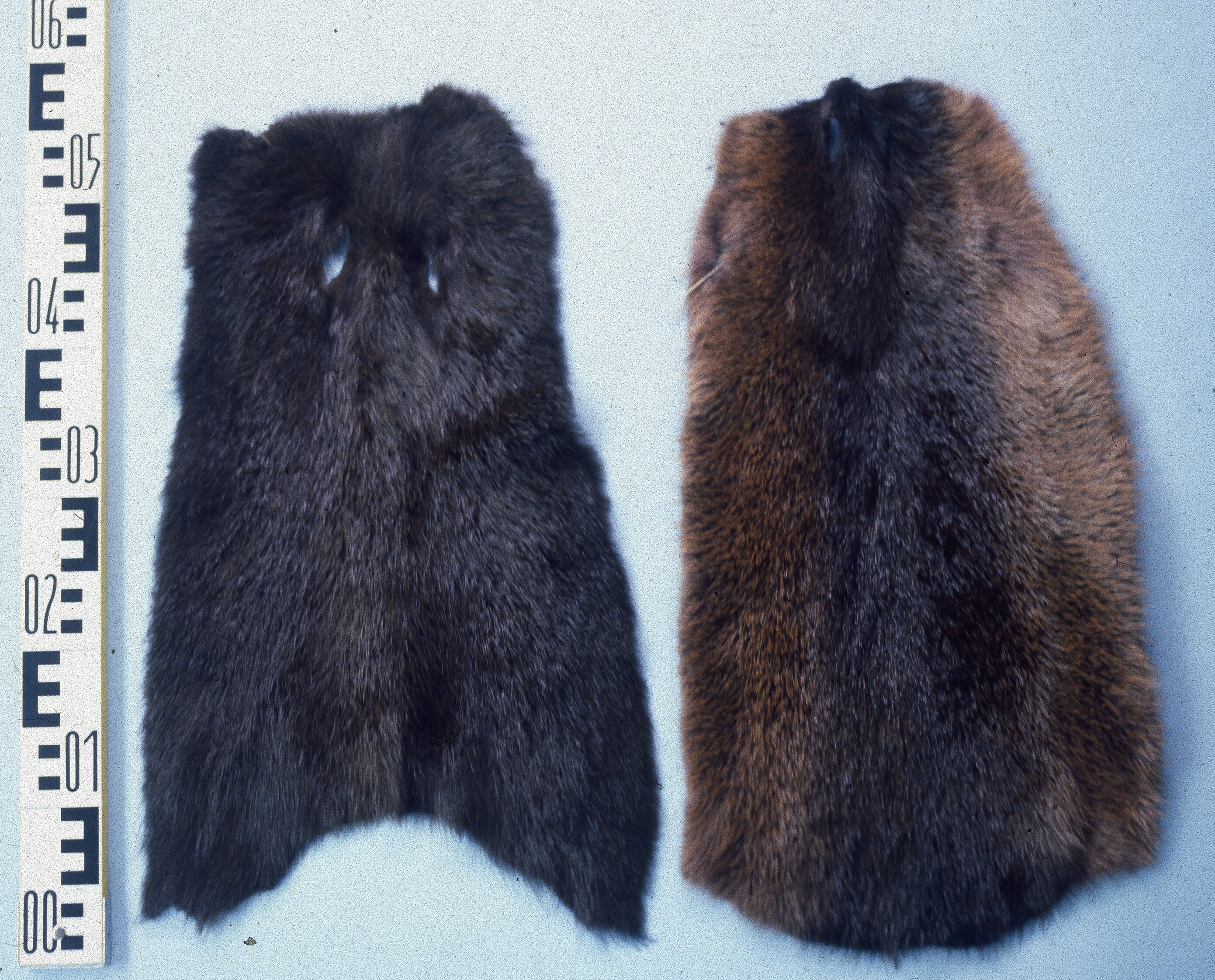 Nutria (Myocastor coypus), left skin coloured. Fur skin collection, Bundes-Pelzfachschule, Frankfurt/Main, Germany